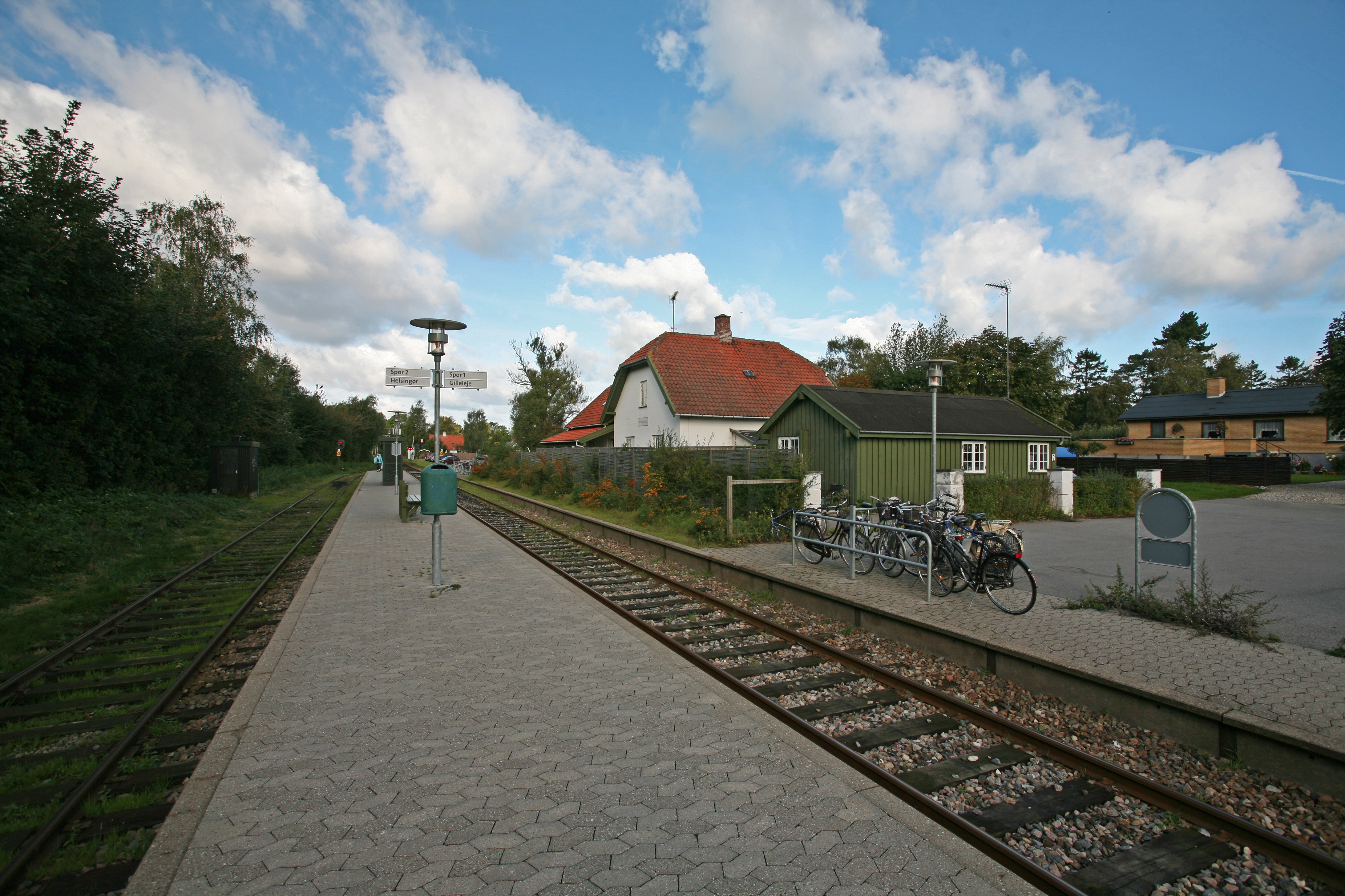 Picture of Dronningmølle Railway Station (Dronningmølle - Denmark)